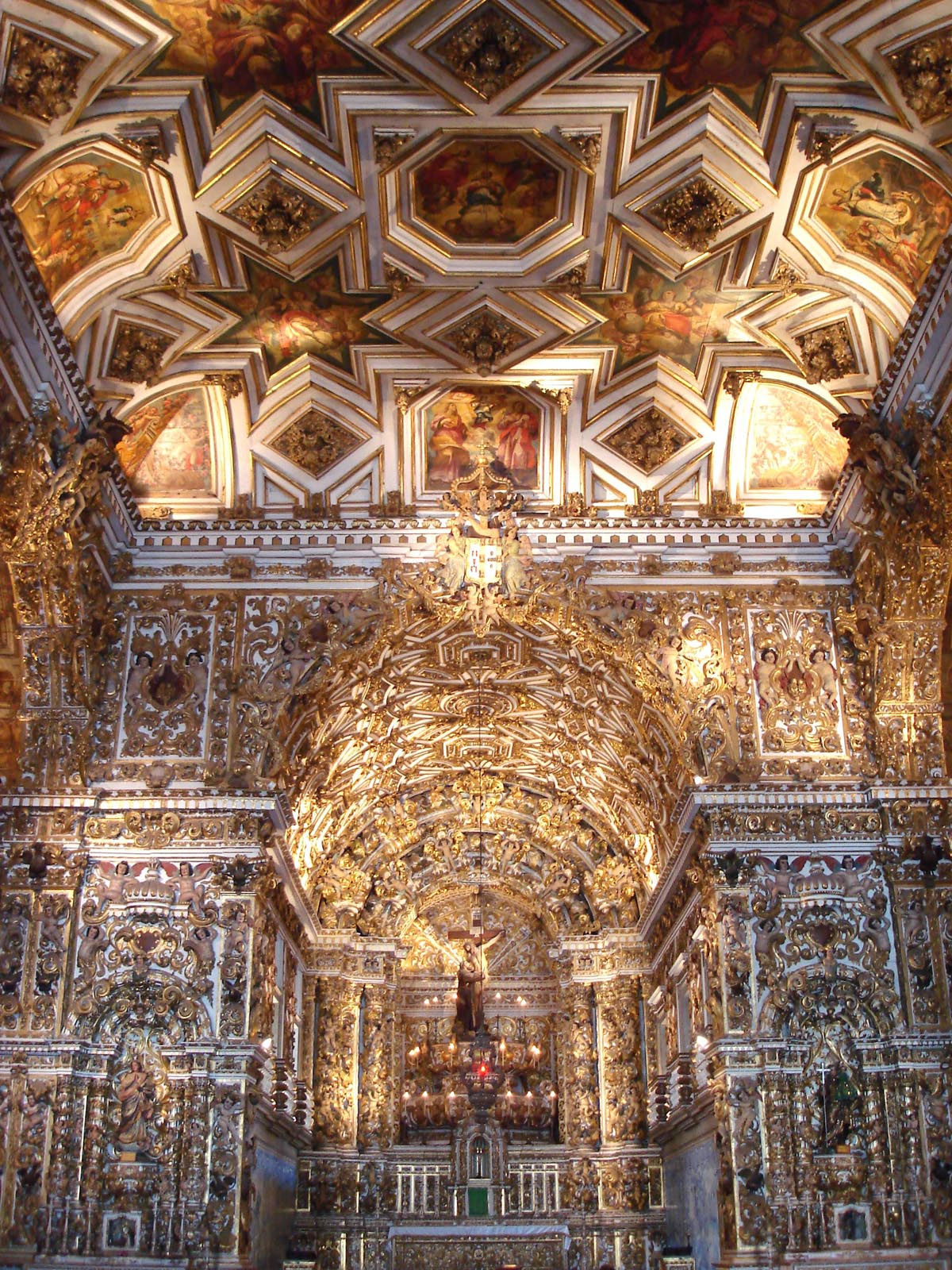 Interior of Sao Francisco Church in Salvador, Bahia, Brazil